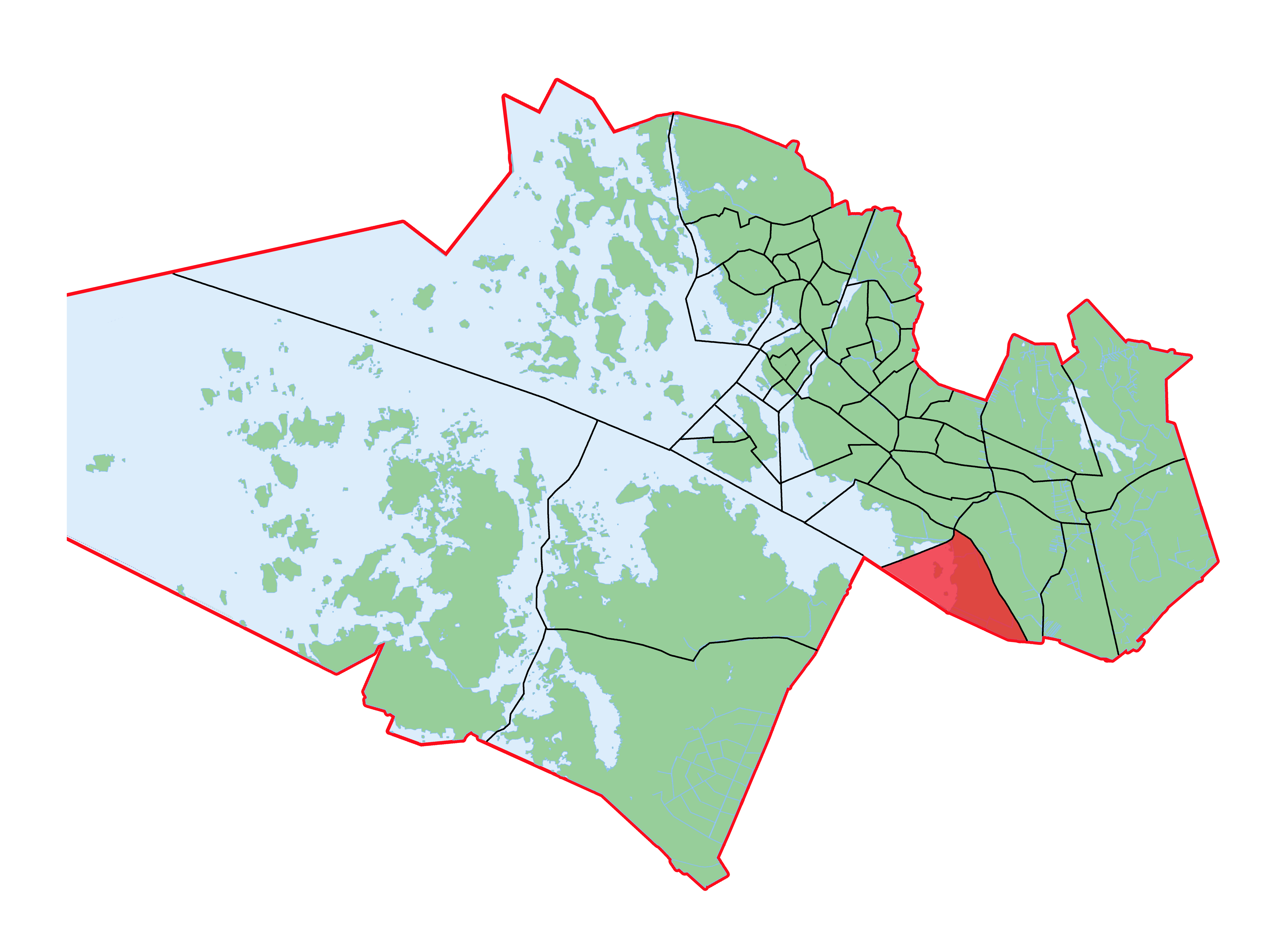 Vanhasatama, Vaasa